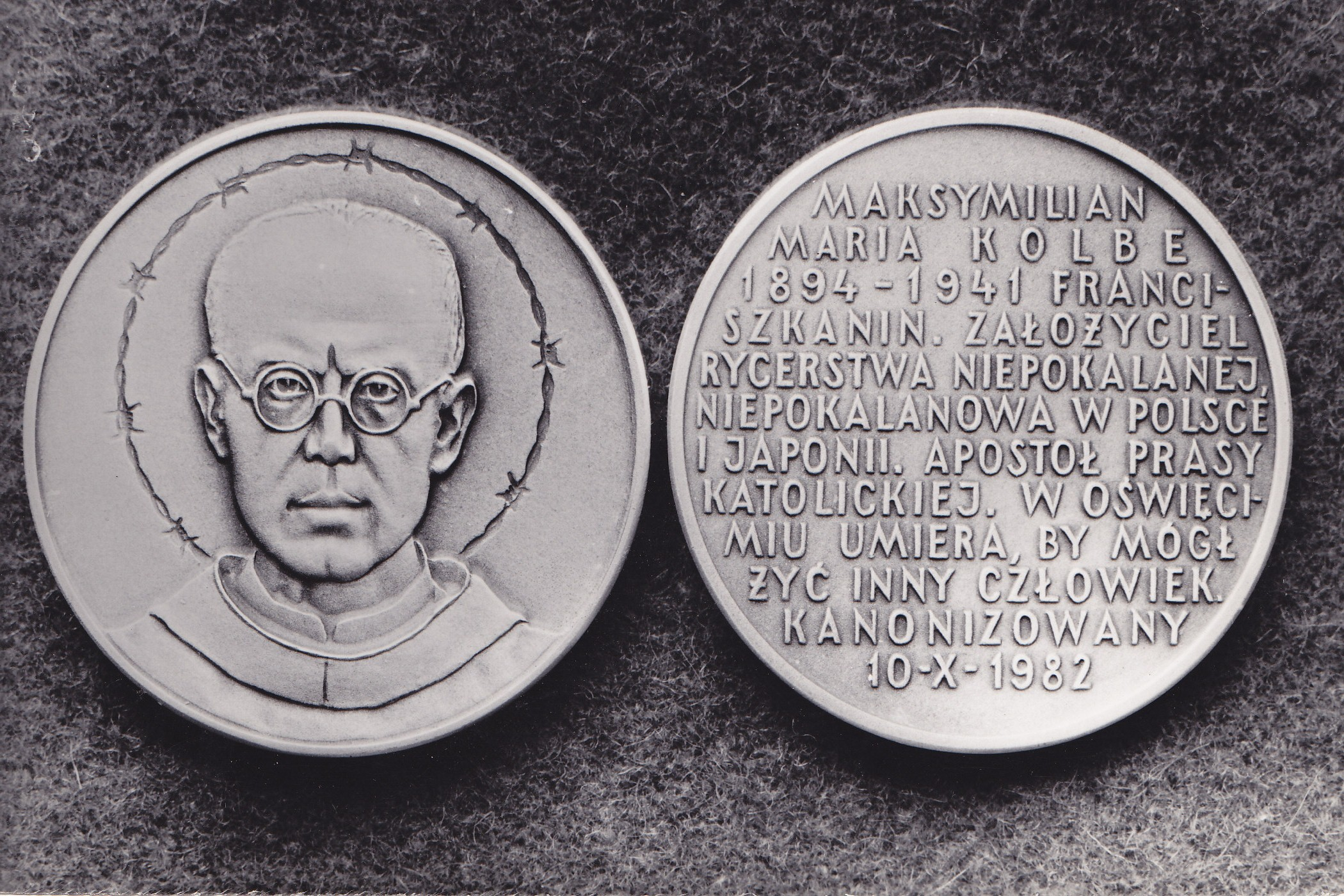 Maksymilian Kolbe - Art medal of Katarzyna Piskorska 1982